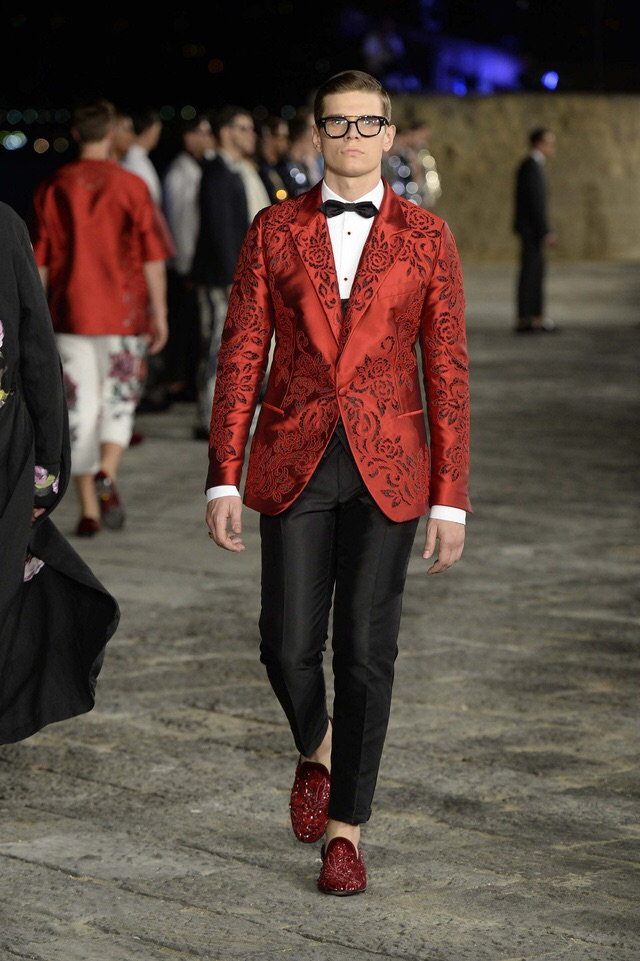 Alessandro Egger in Vogue Paris.